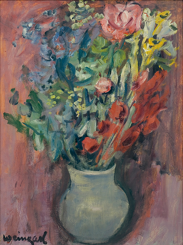 Flowers in a vase